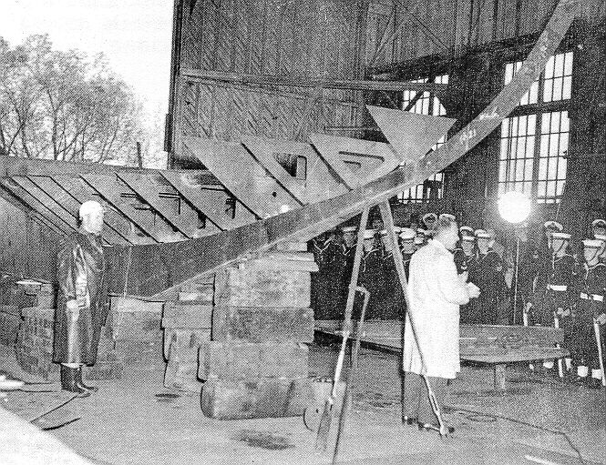 The S.T.V. Pathfinder's keel ceremony, observed by a number of Navy Cadets.